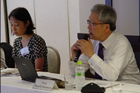 Shigeki Sakamoto, Professor of the Faculty of Law, Doshisha University, and Shizuka Sakamaki, Lecturer of the School of International Relations, University of Shizuoka, attended Japanese Security and International Law at the Command and Staff College, Maritime Self-Defense Force in Meguro Ward, Tōkyō Metropolis on September 15, 2015.